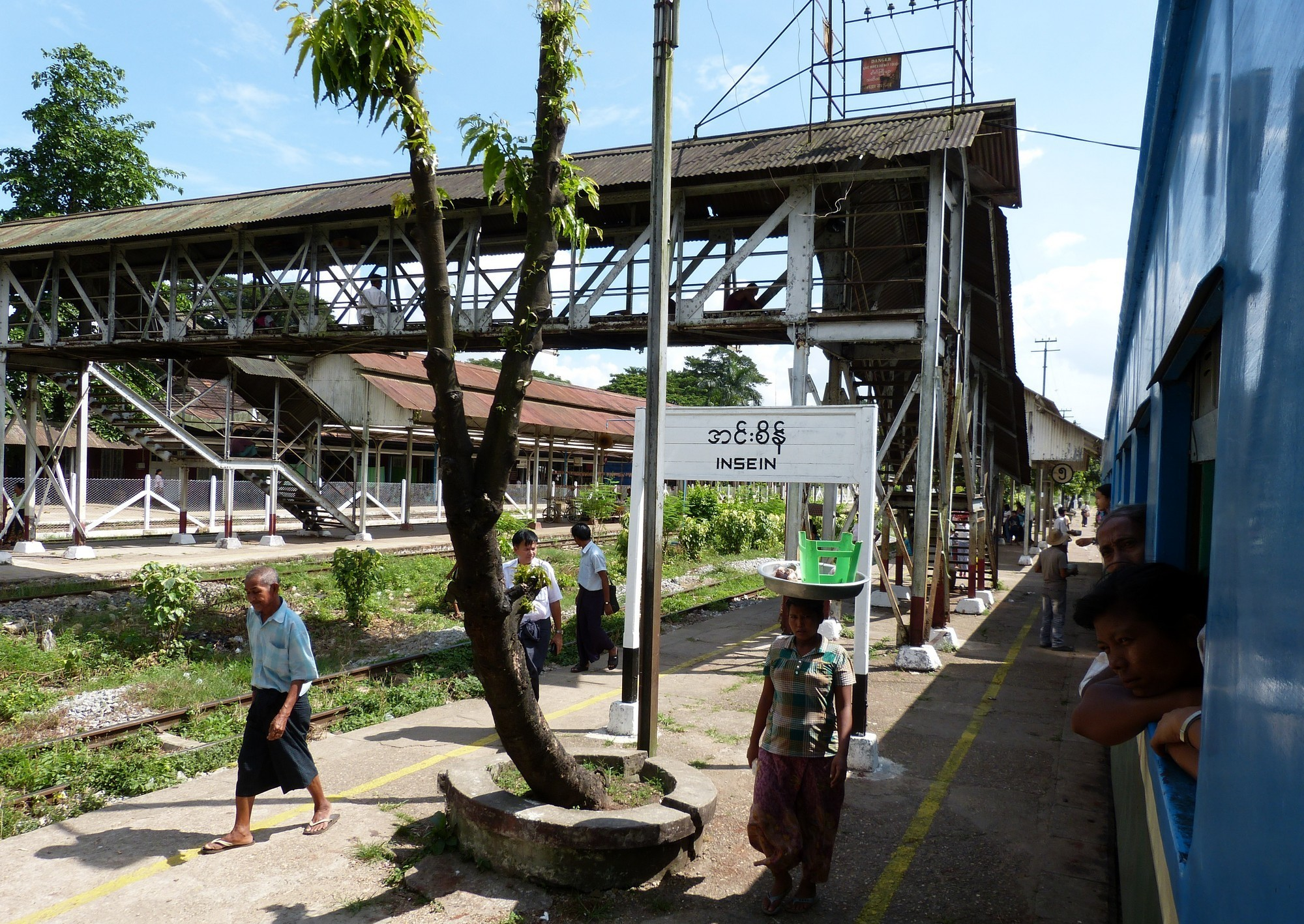 Circular train, Yangon